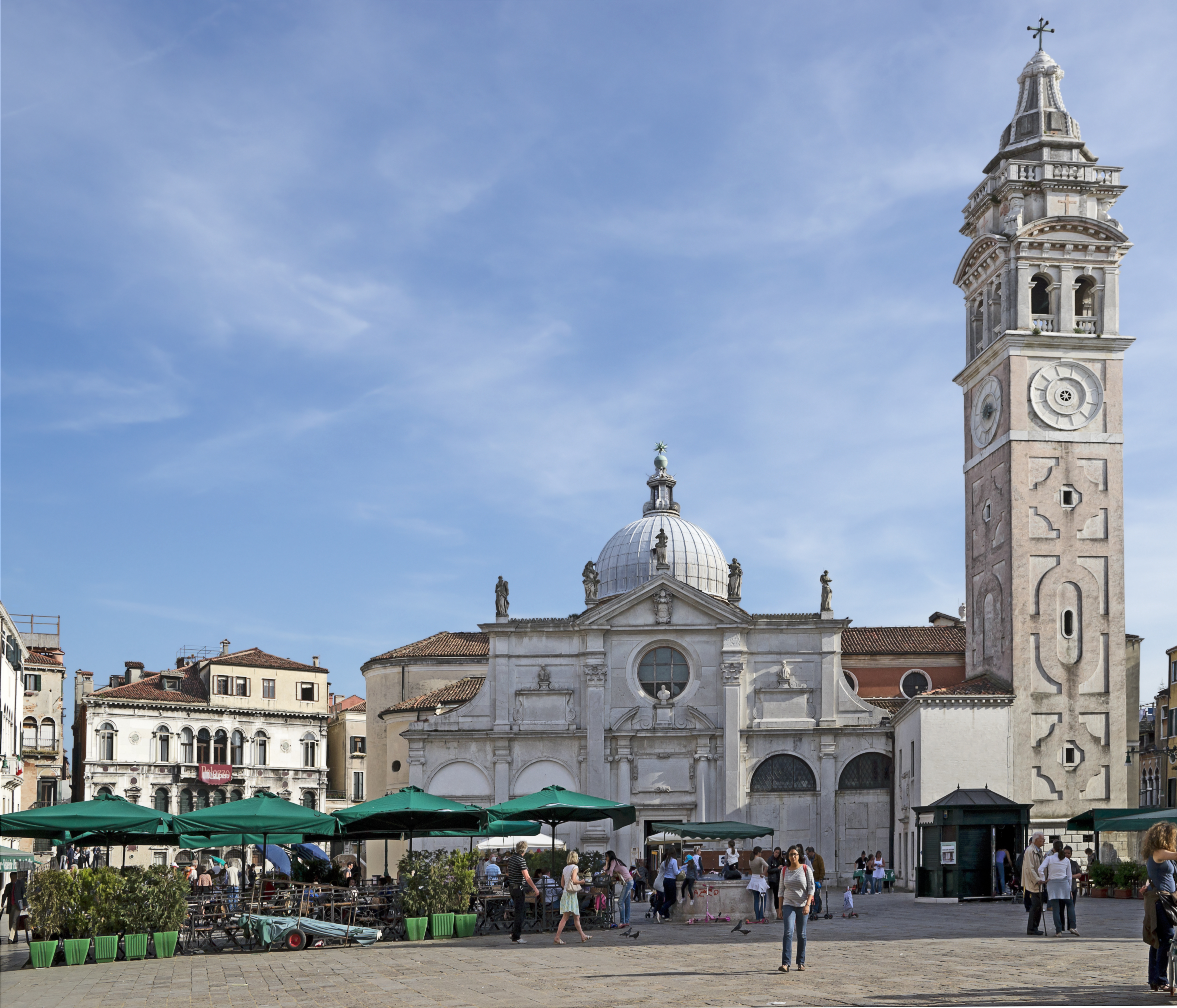 Church of Santa Maria Formosa North facade and bell tower Venice by Mauro Codussi.